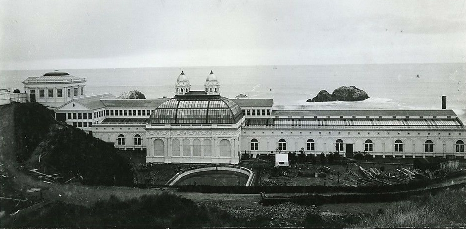 Sutro Baths looking west